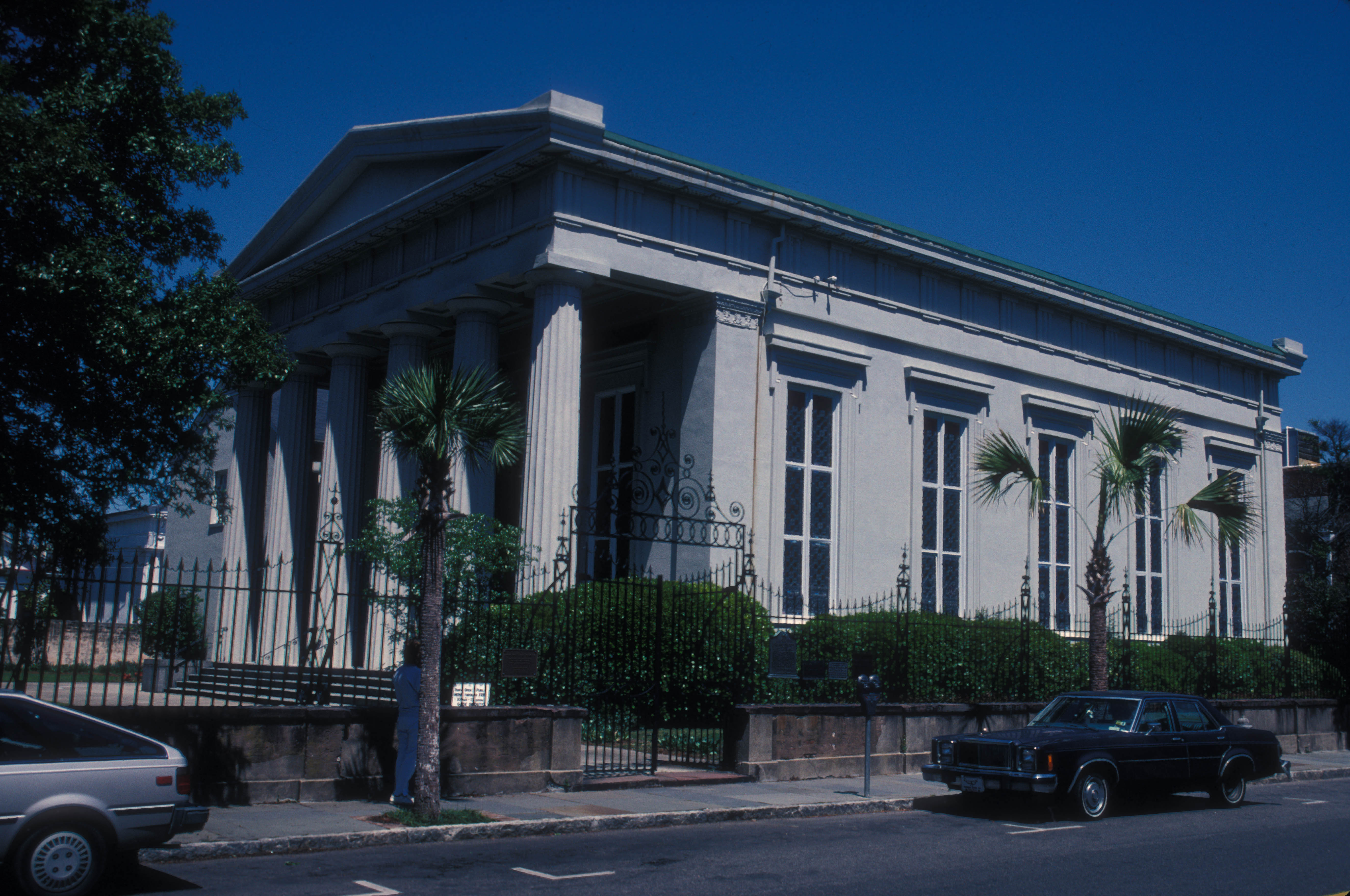 ORIGINAL SYNAGOGUE ON THIS SITE AND THIS CLASSIC REVIVAL STRUCTURE WAS BUILT IN 1840; REGARDED AS THE BIRTHPLACE OF REFORMED JUDAISM IN THE U.S.; IT IS THE 2ND OLDEST SYNAGOGUE AND THE OLDEST IN CONTINUOUS USE